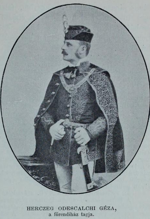 Portrait of Odescalchi Géza